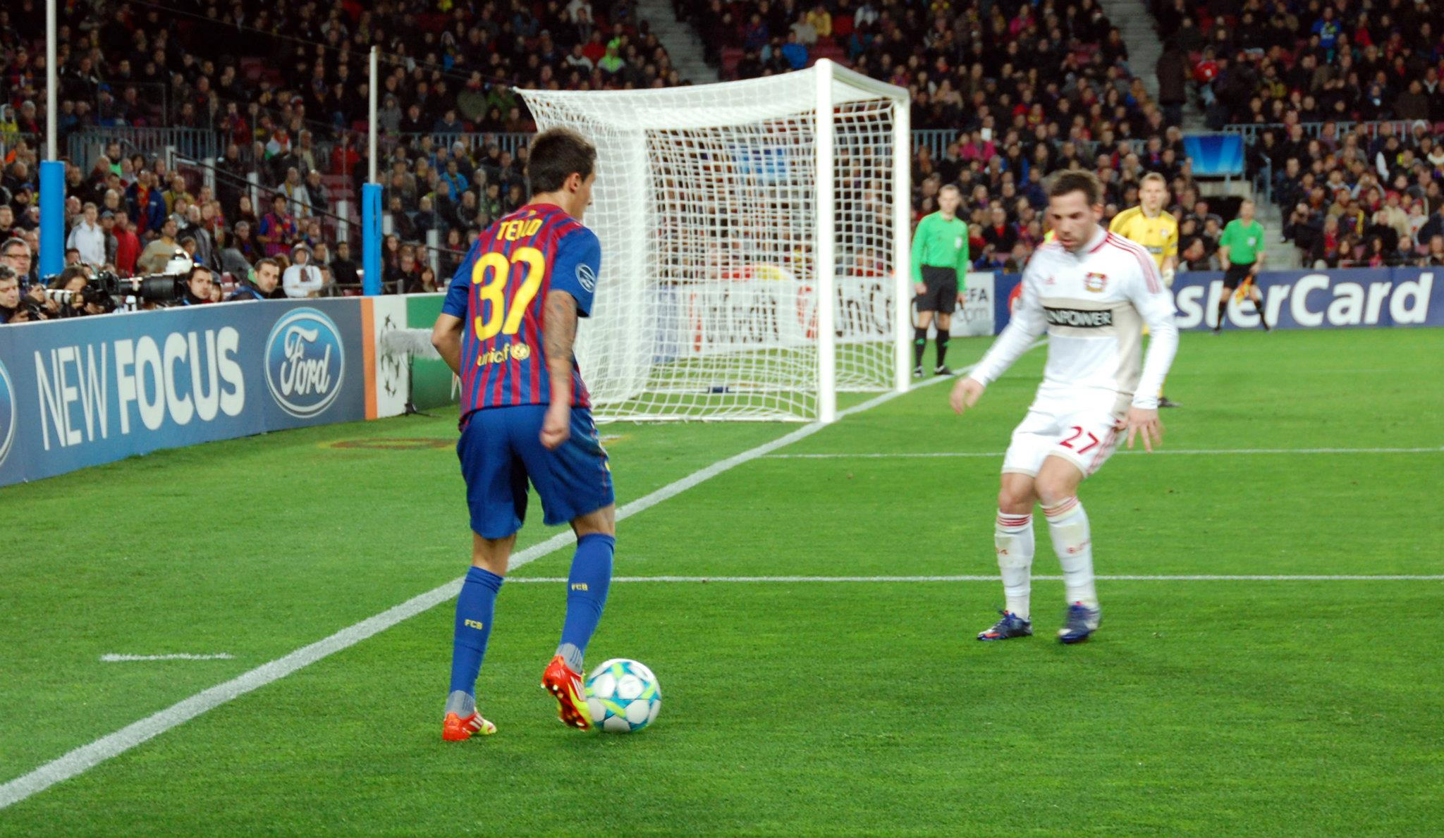 FC Barcelona - Bayer 04 Leverkusen, 1/8 Final UEFA Champions League, Season 2011/2012